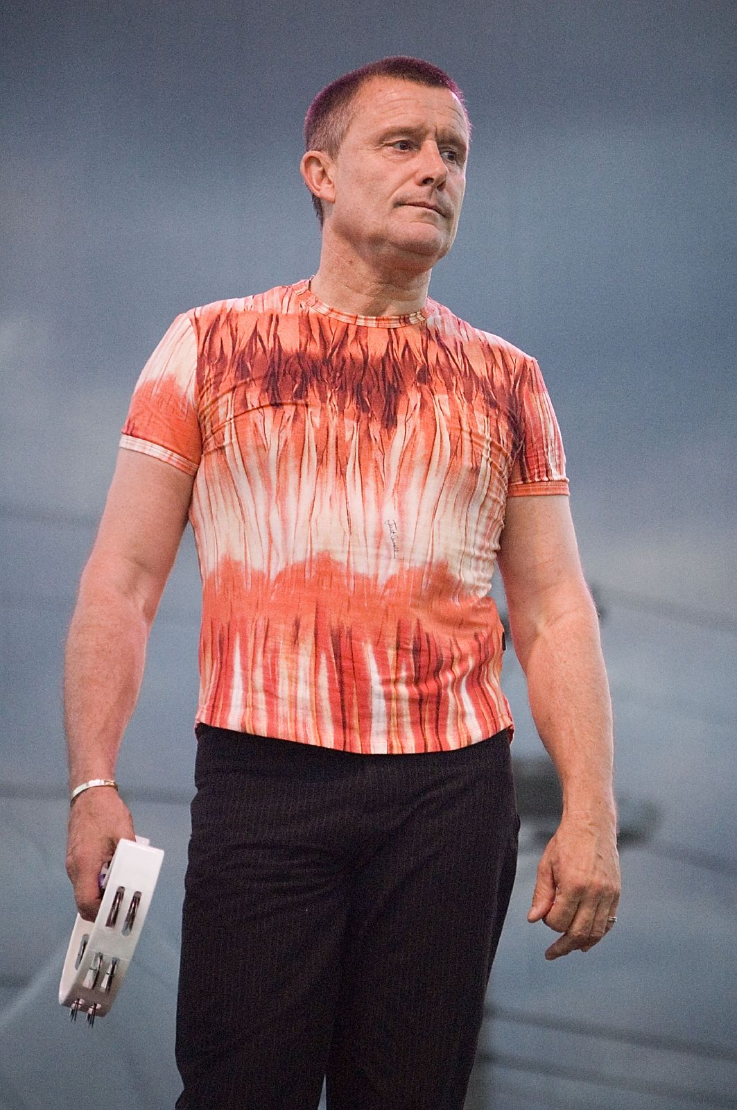 Carl Palmer at Asia concert at Norwalk, CT Oyster Festival